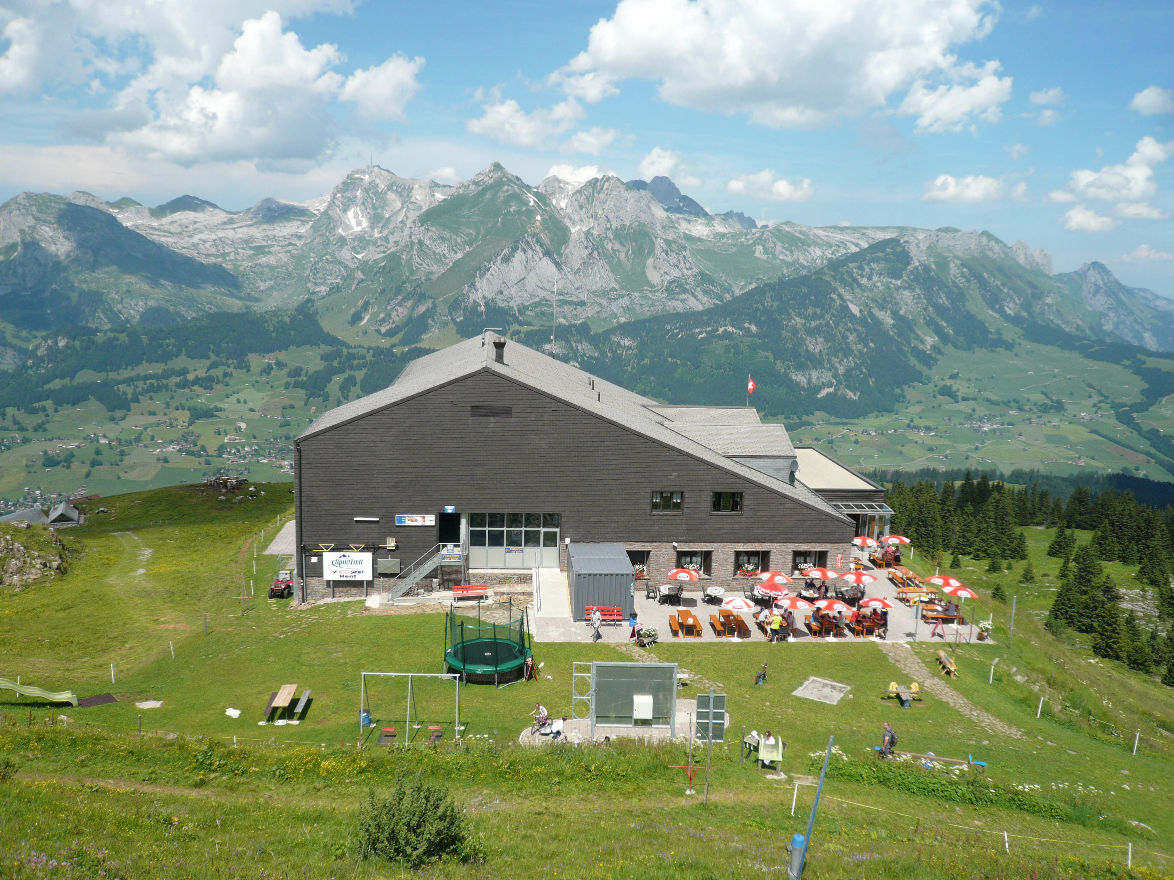 Gamsalp on Gamserrugg mountain, Switzerland